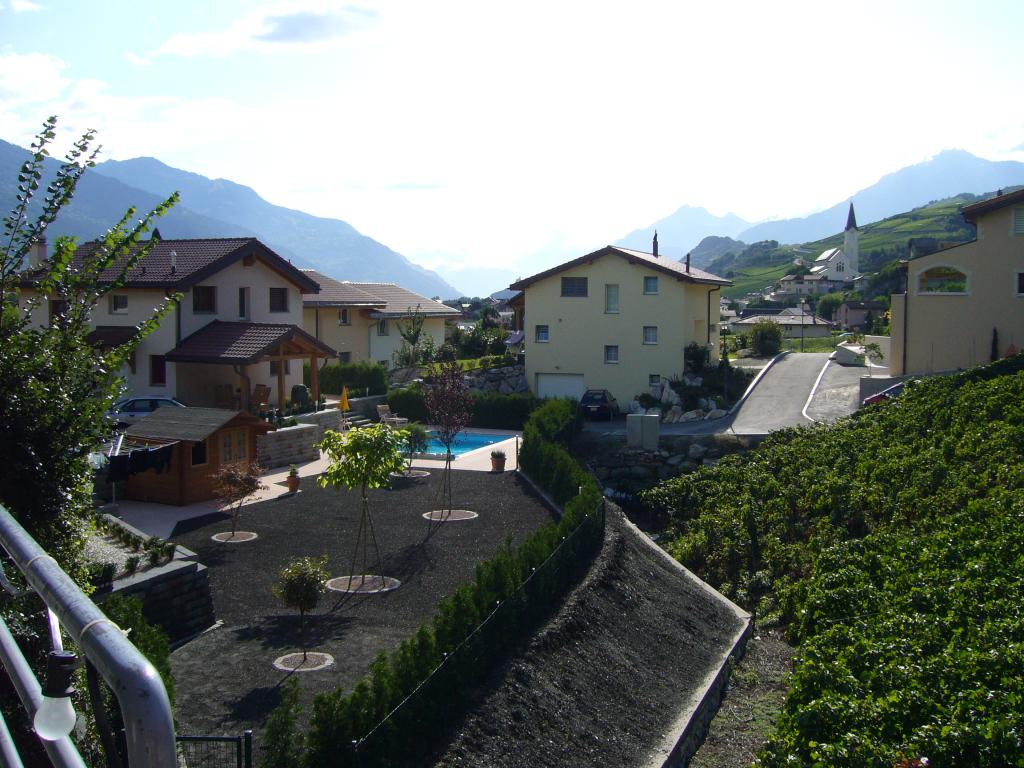 Saint-Léonard, Canton of Valais